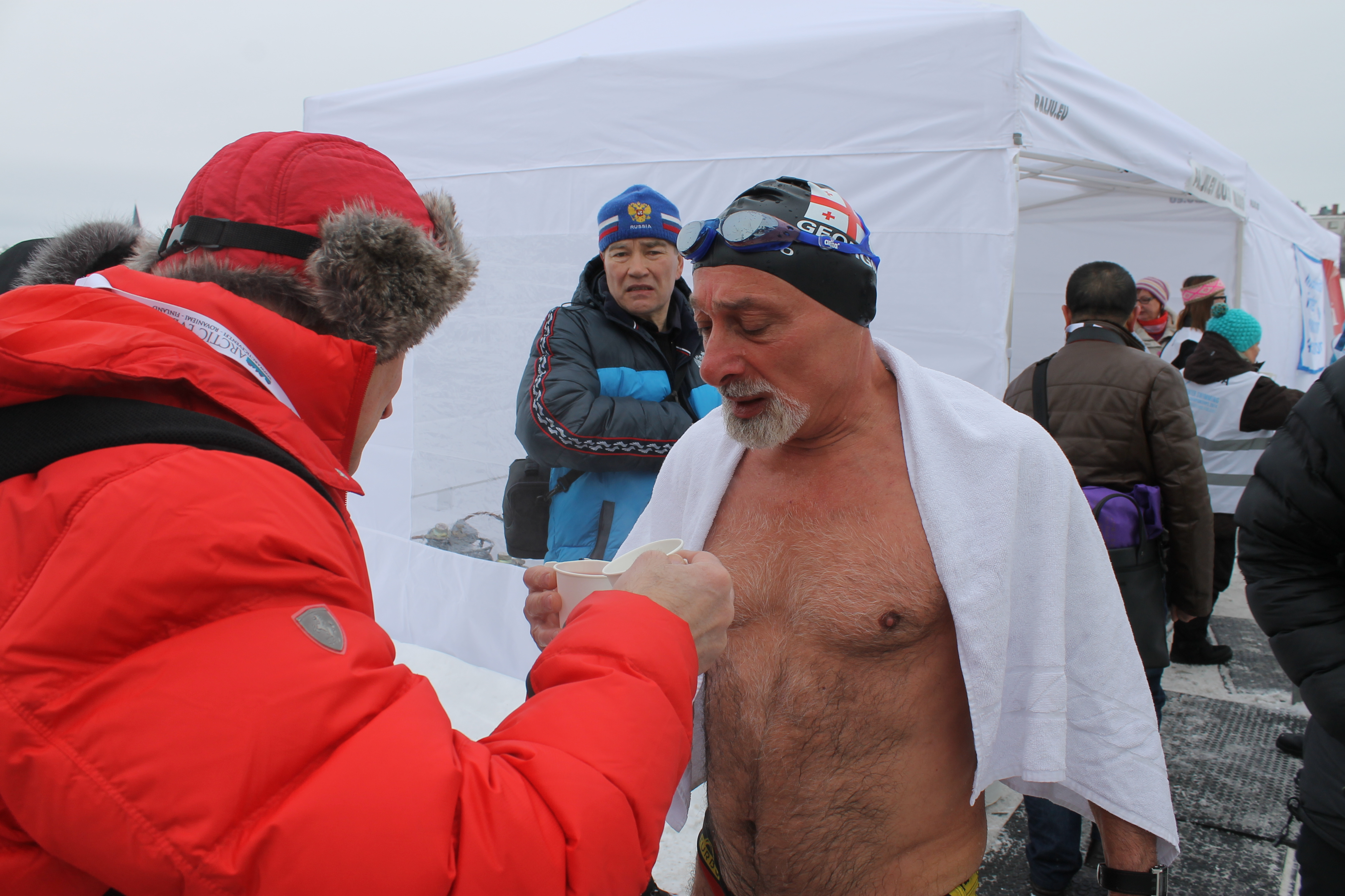 The Winter Swimming World Championships 20.-23.2014, Rovaniemi, Finland